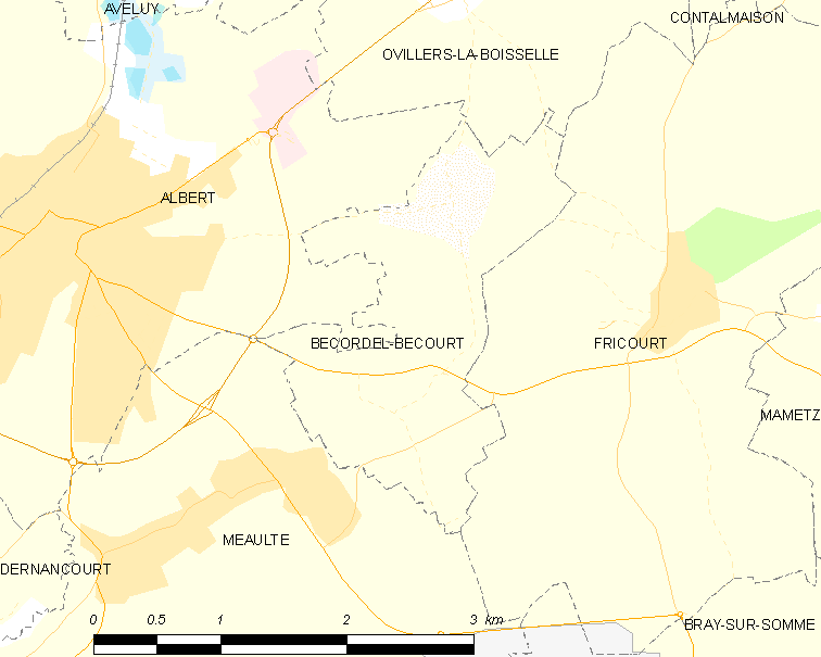 Map of French municipality Bécordel-Bécourt